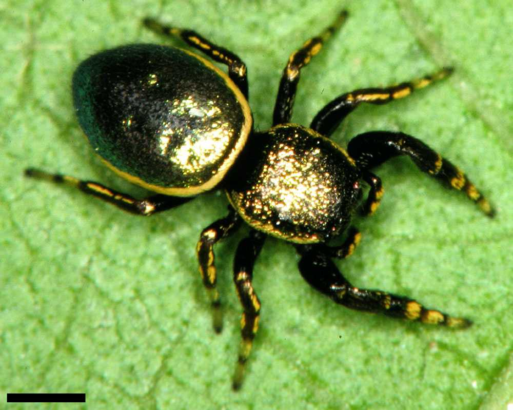 Female Sassacus papenhoei jumping spider from Knob Noster State Park, Missouri, USA